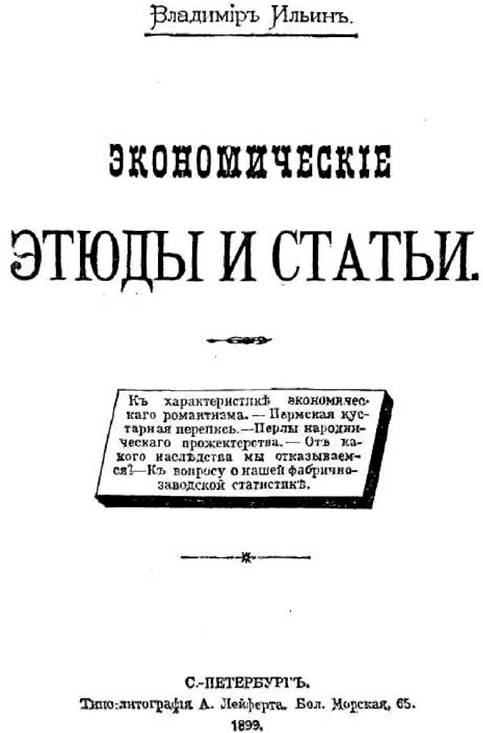 Cover collection of Lenin works "Экономические этюды и статьи" (Economic sketches and articles)